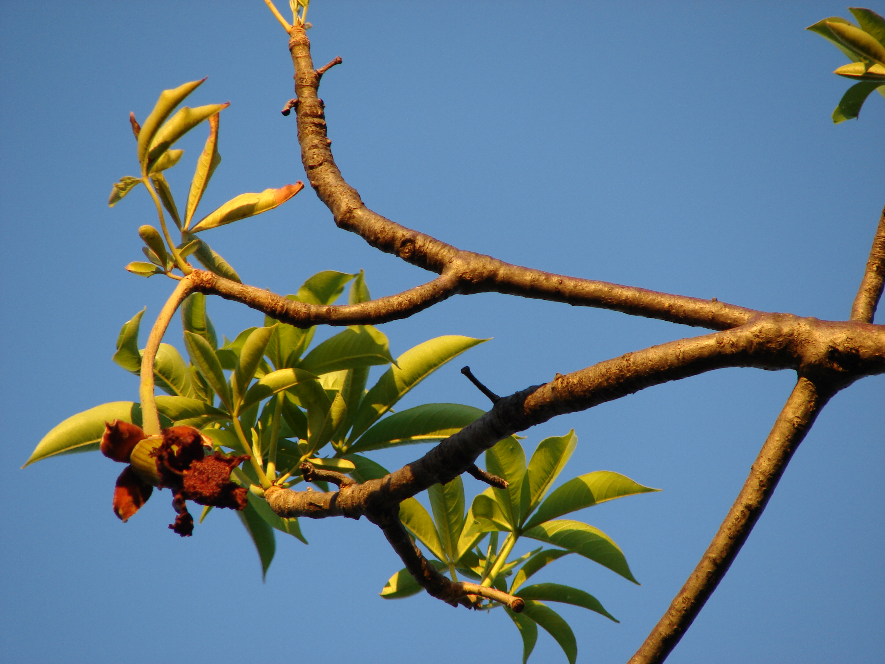 Adansonia digitata (leaves and flower). Location: Oahu, Ala Moana Beach Park